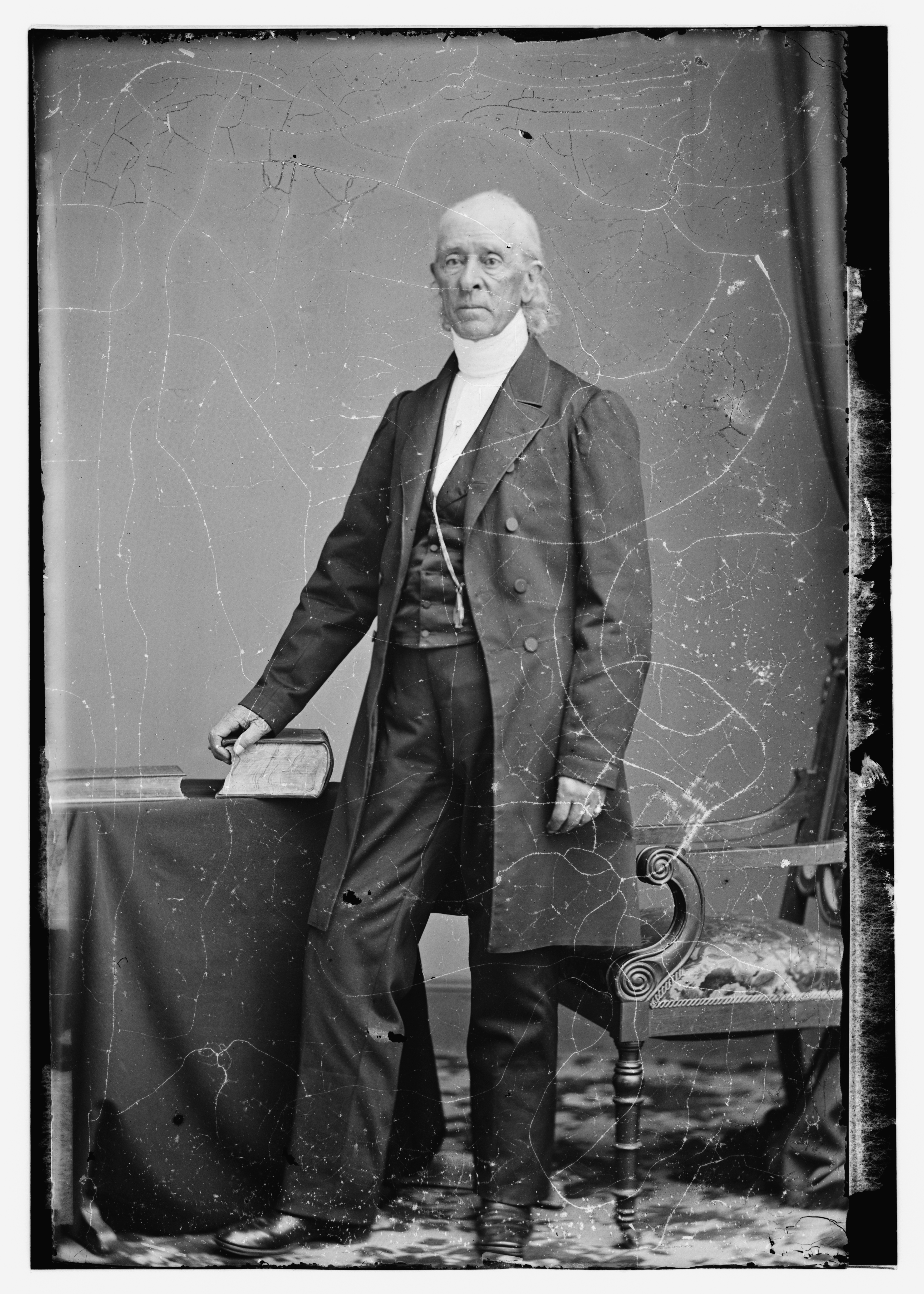 Rev. David Leavitt, circa 1855–1865. Glass wet collodion negative. From the Brady–Handy Photograph Collection, The Library of Congress, Washington, D.C.